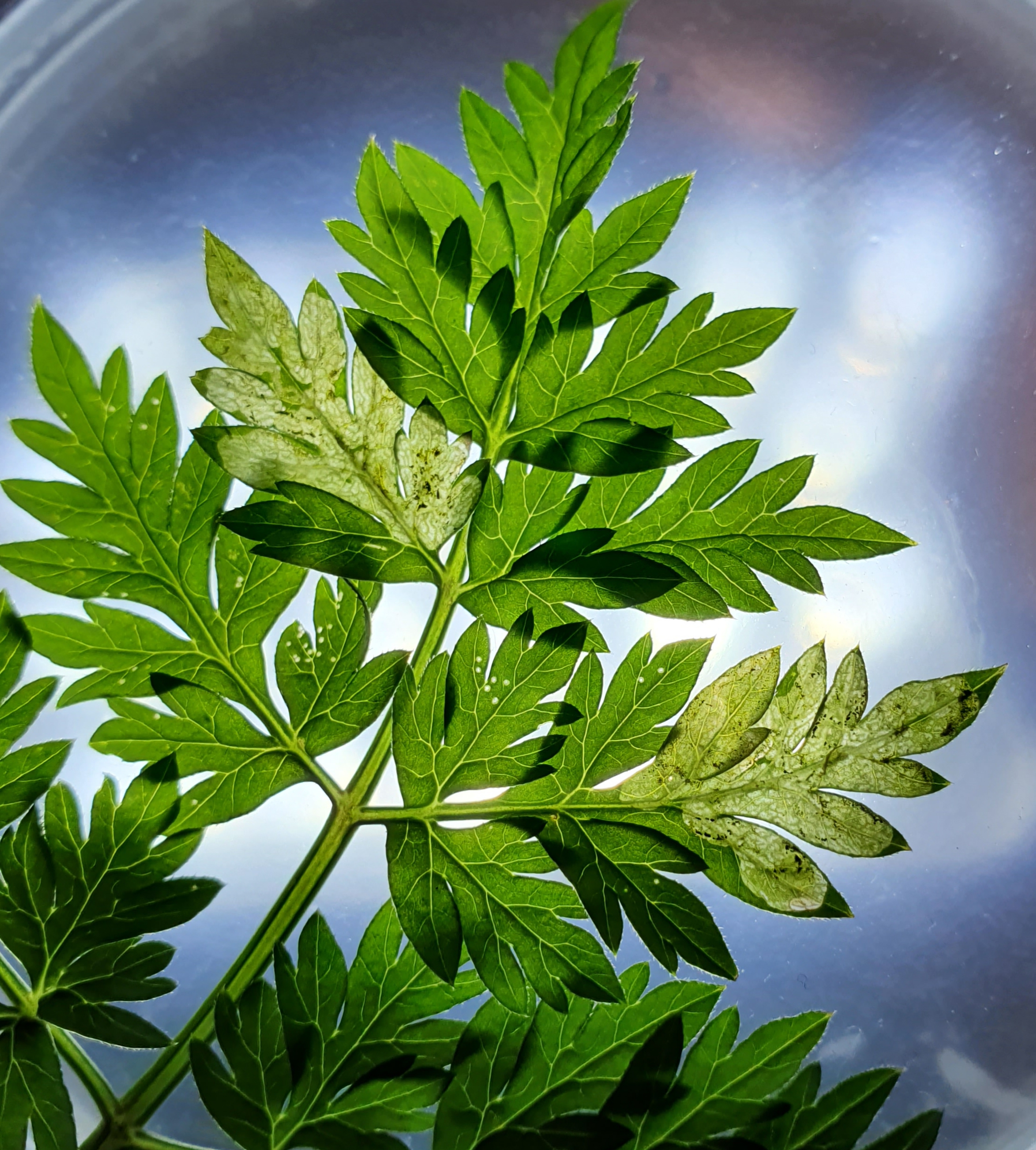 Mines of Phytomyza chaerophylli on cow parsley (Anthriscus sylvestris) from west Cornwall in January, 2020.